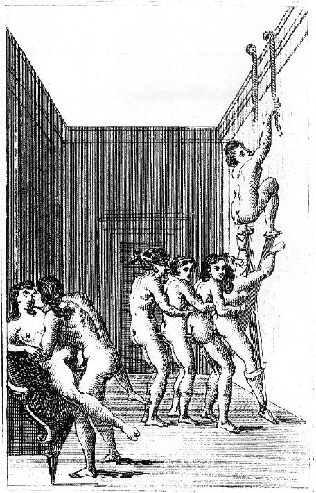 From the Dutch edition of De Sade's La nouvelle Justine; ou, Les malheurs de la vertue.